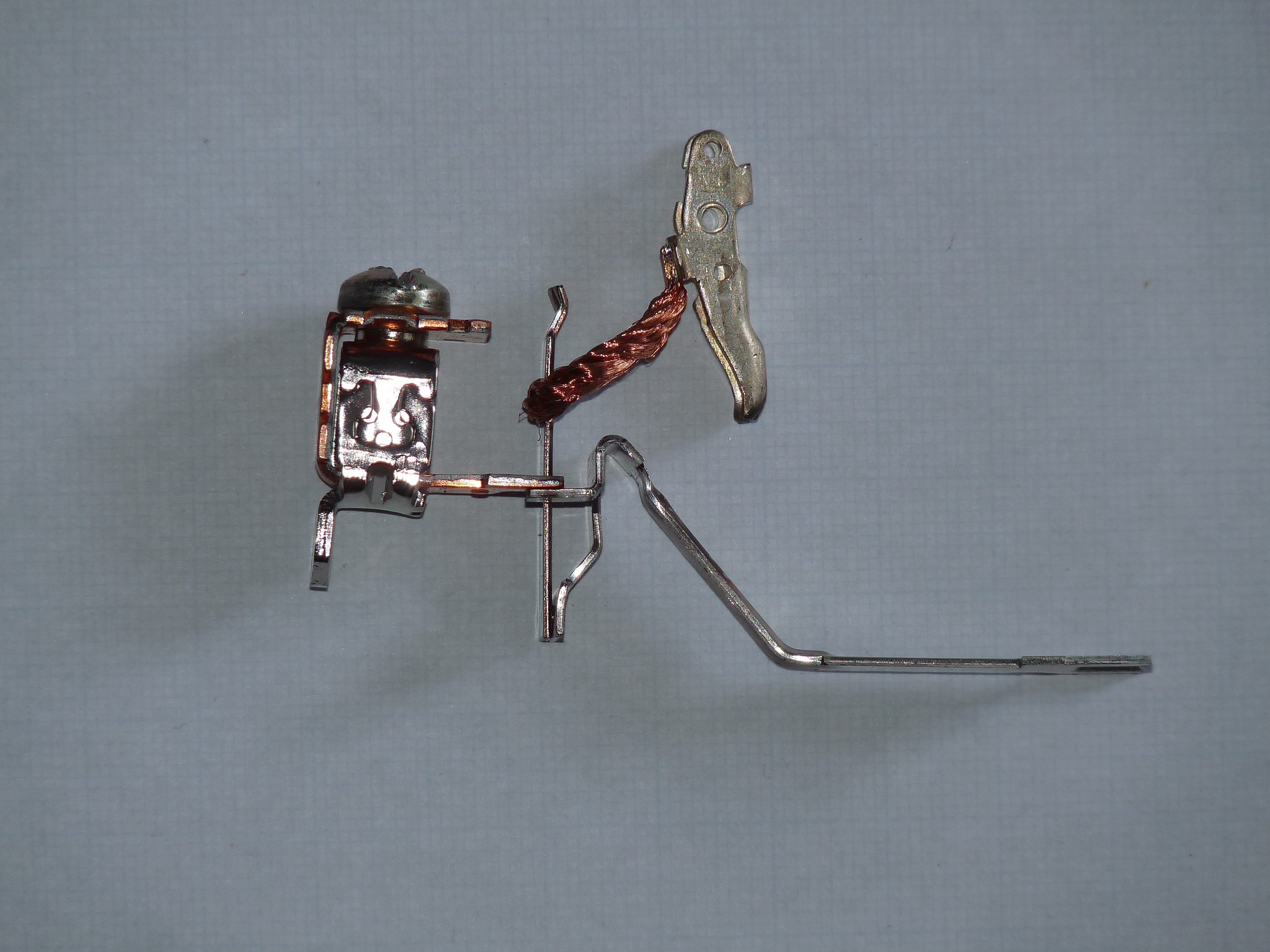 Thermal disconnector from circuit breaker